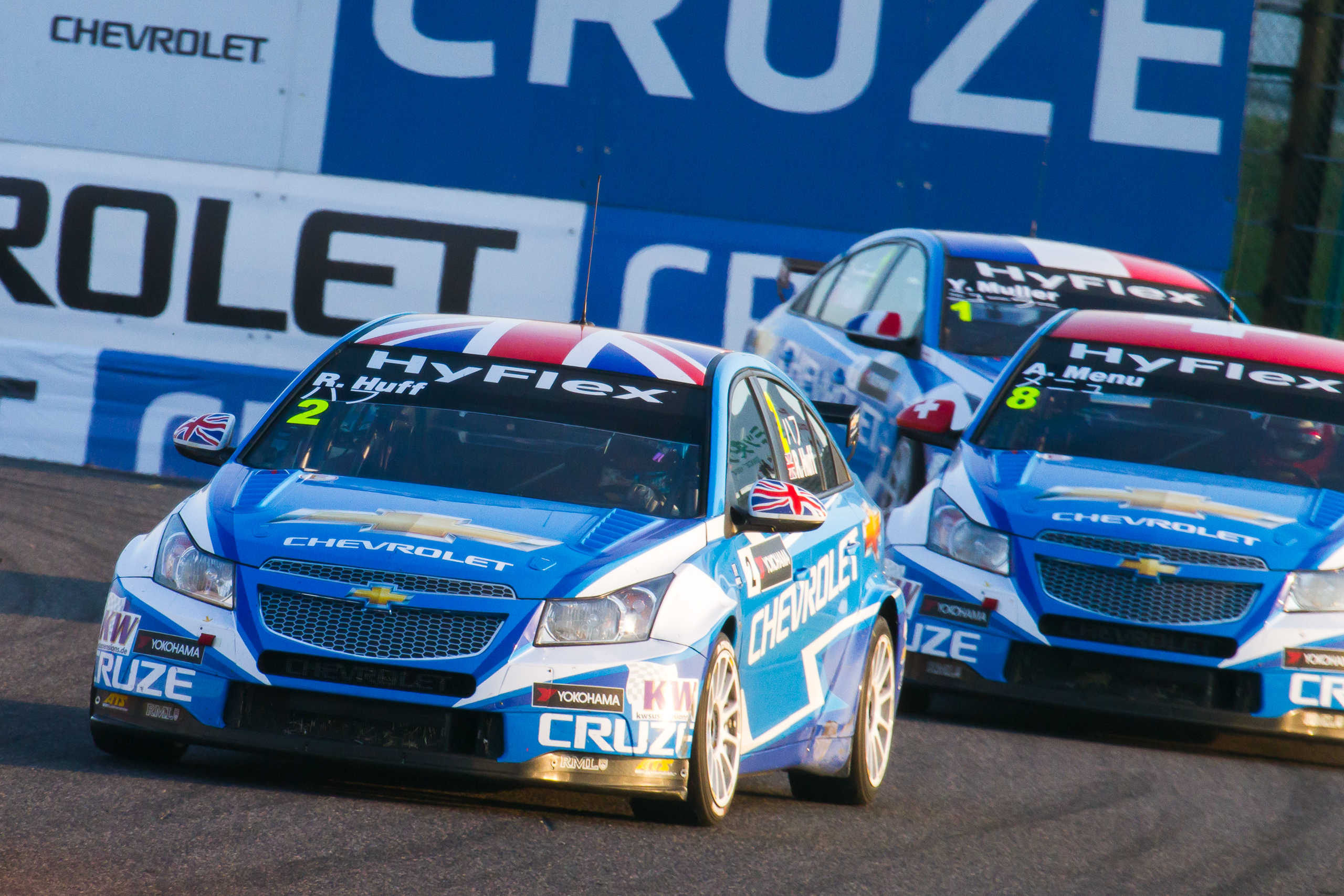 World Touring Car Championship 2012 Race of Japan: Chevrolet trio (Robert Huff, Alain Menu, and Yvan Muller) during the Race 2.